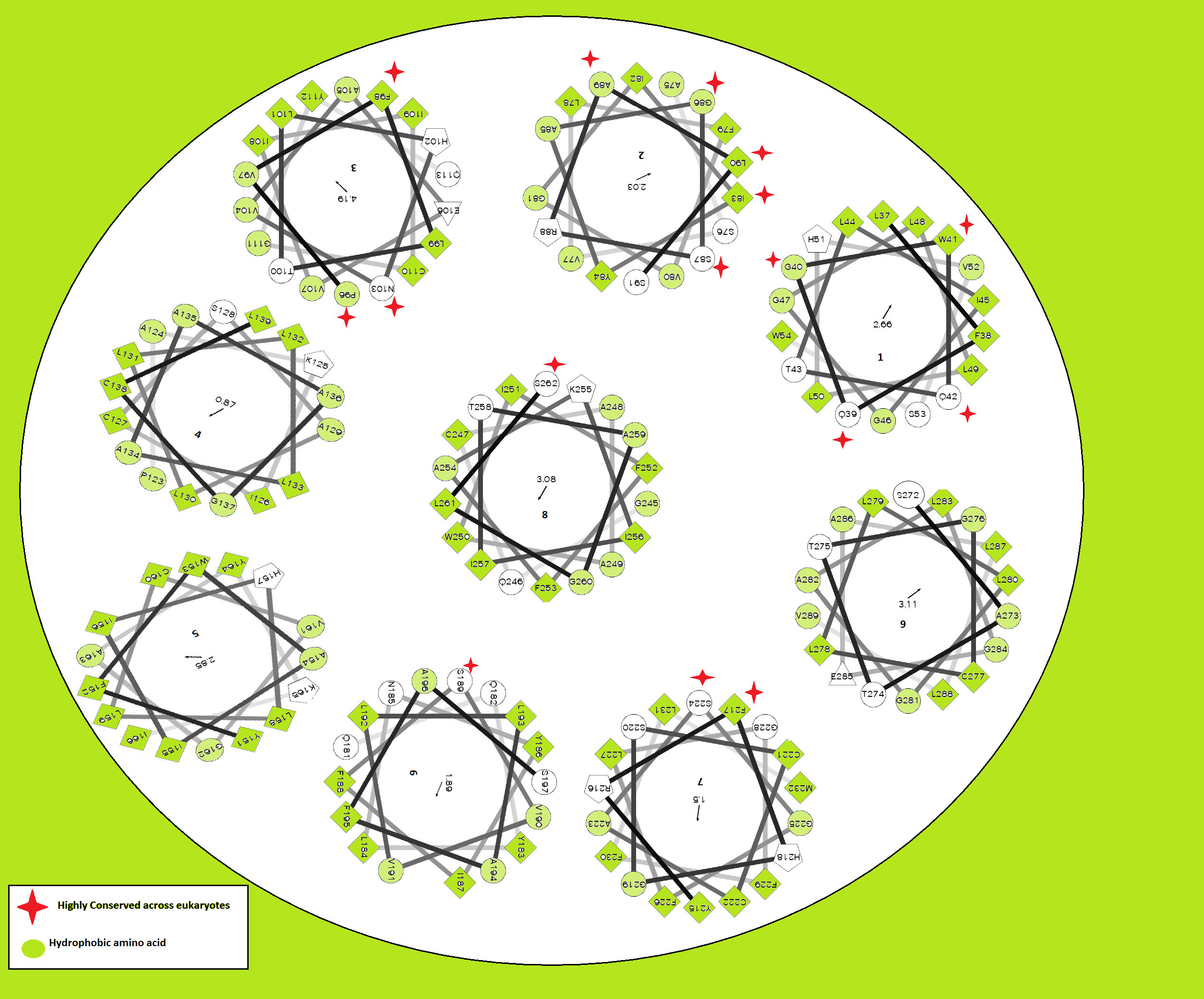 Shows the hydrophobic and hydrophilic orientations of the alpha helix domains for TMEM241 Isoform 1